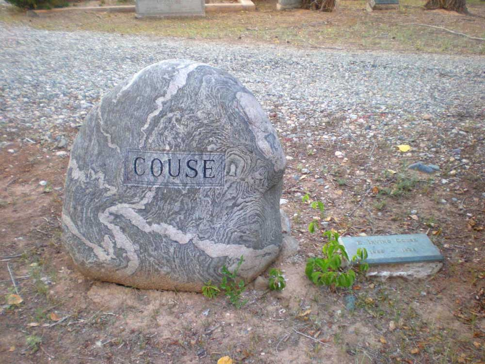 Grave marker of E. Irving Couse, Sierra View Cemetery, Taos, New Mexico.